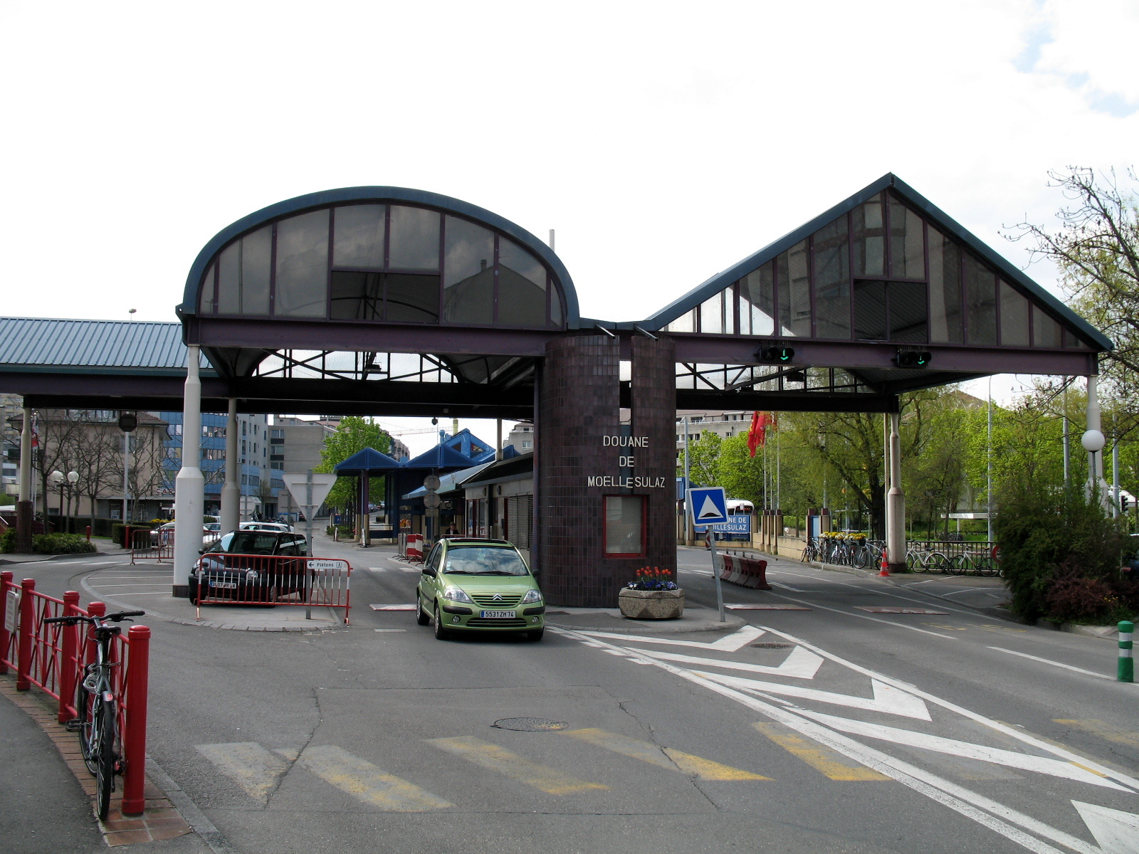 France-Swiss border crossing point on the Rue de Genève in Moillesulaz.